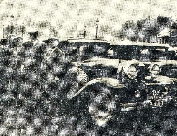 Entry #150 in the 1931 Rallye Monte Carlo is a Graham-Paige with 5,276 ccm engine, dutch license "P-4910", driven by a dr. J. J. SPrenger van Eijk.[1]